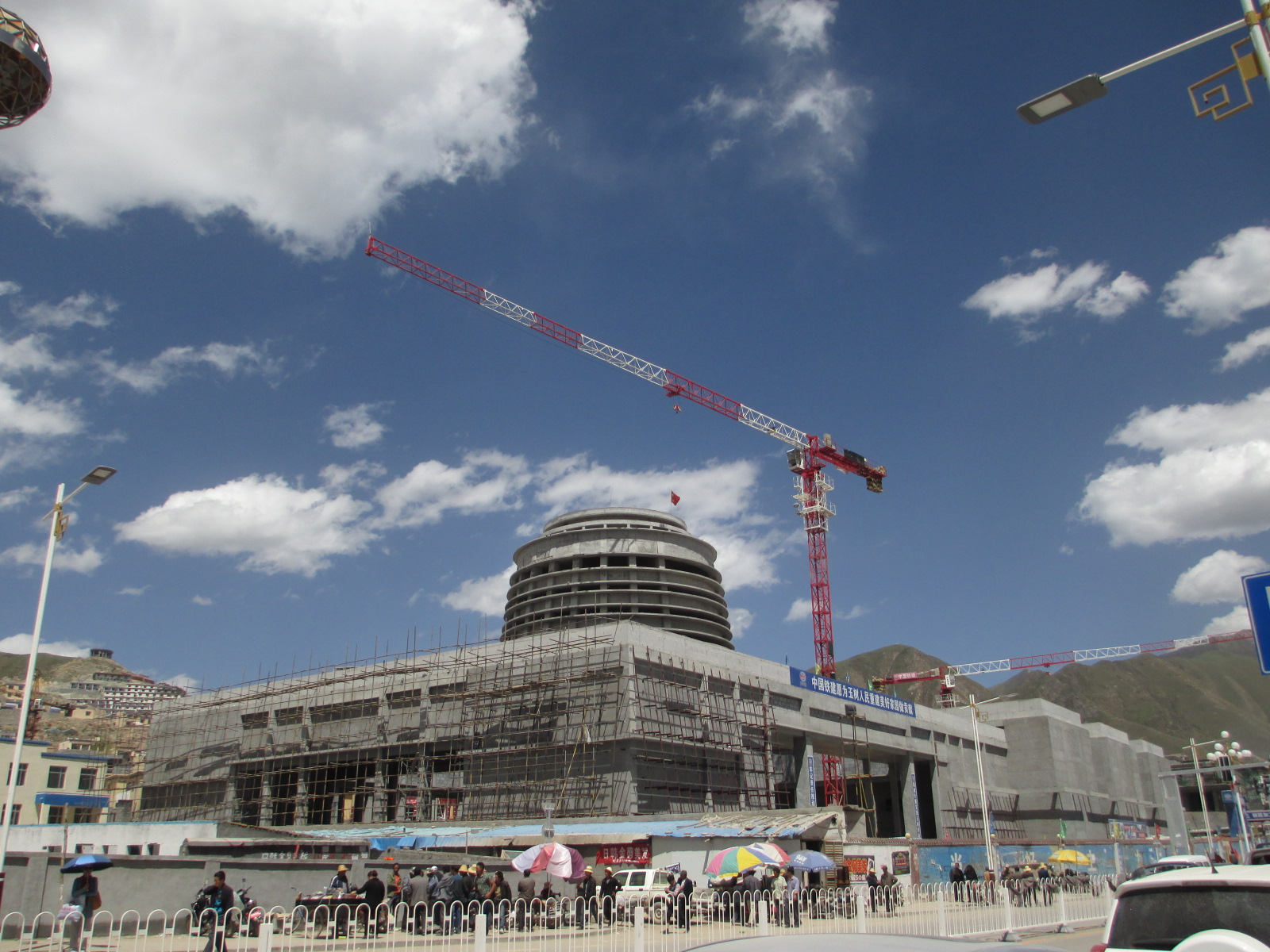 new construction in Gyegu, 2013